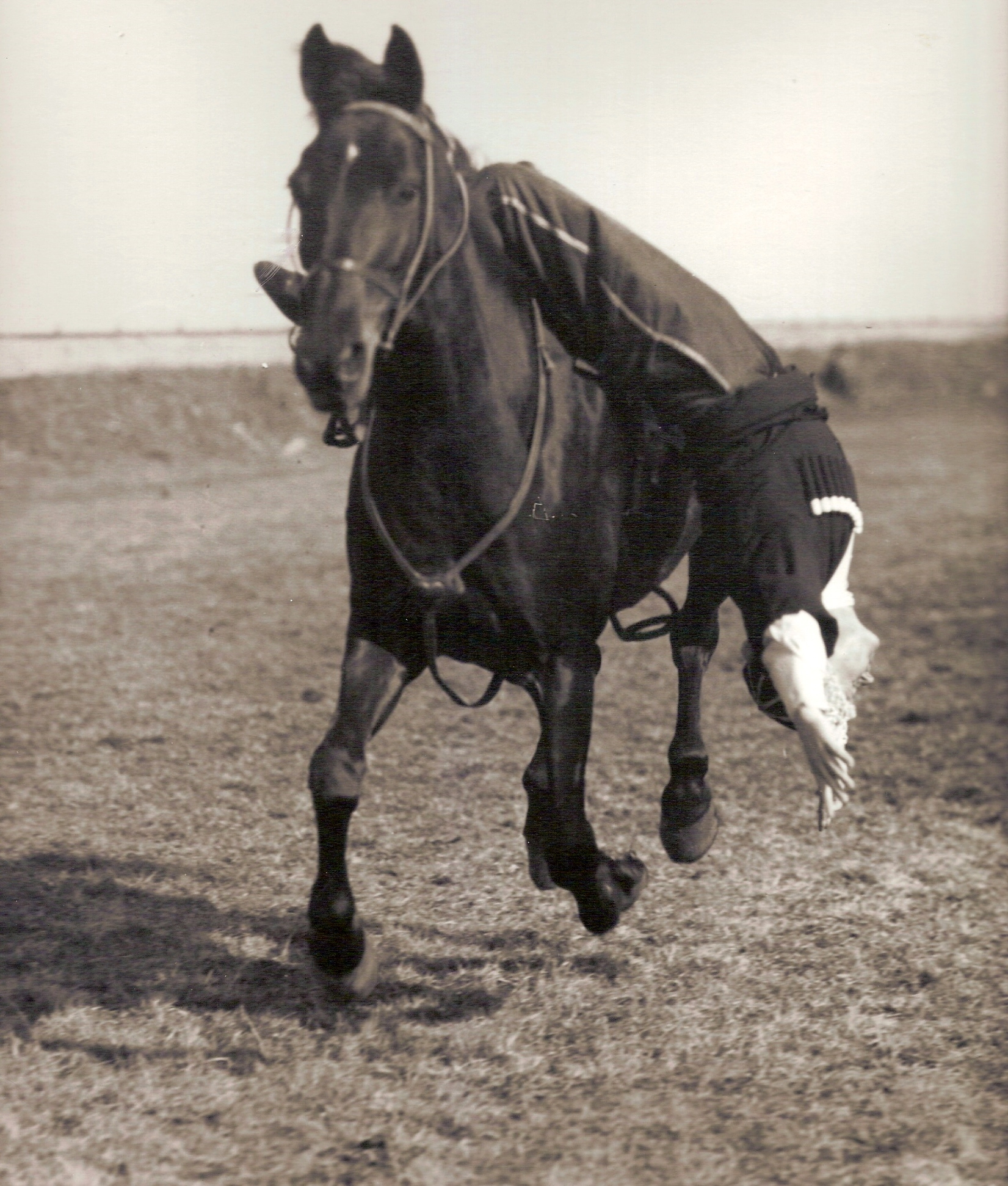 Photograph of a Cossack doing a riding trick called "Falling".